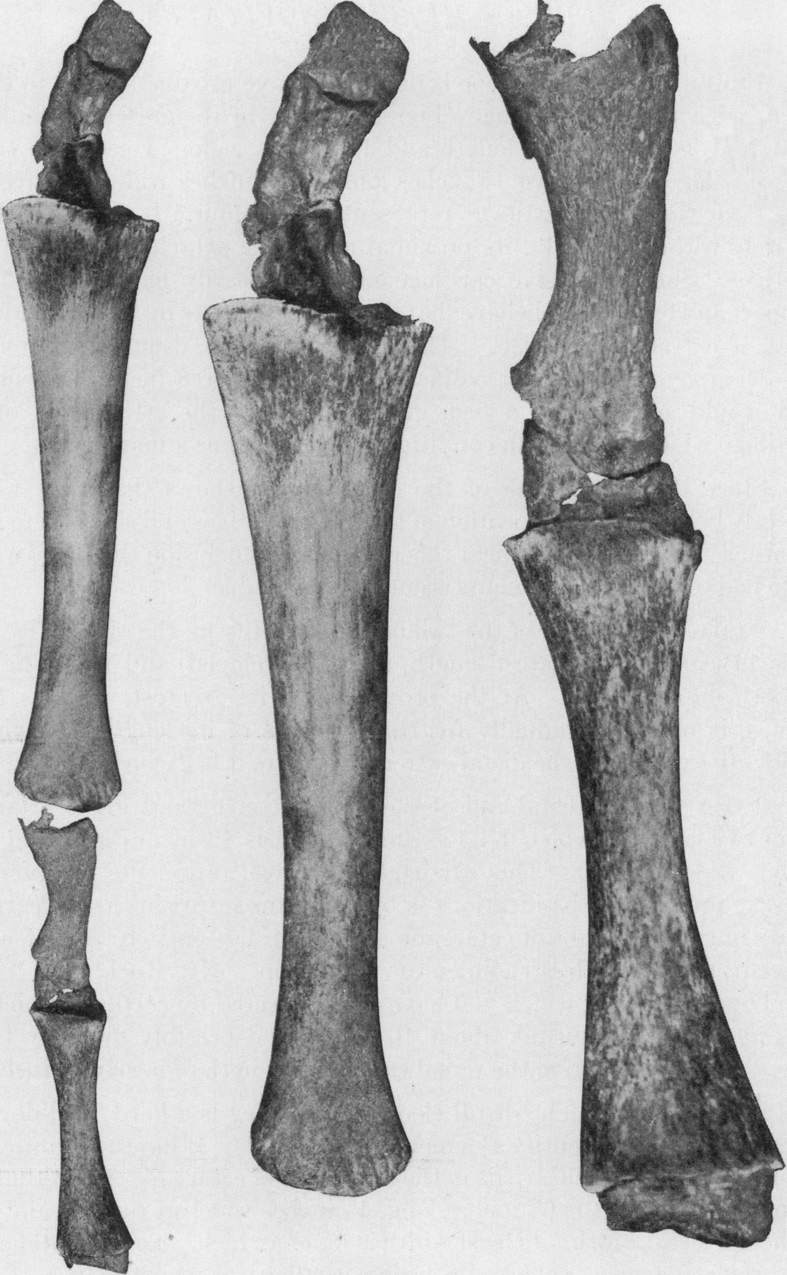 The hindlegs of a humpback whale caught in July 1919 by a whaler operating from Kyuquot, Vancouver island. The remains presented to the Provincial Museum, Victoria. Picture published in the American Museum Novitates. From left to right, the bones are: Skeleton of the hind limb, Cartilaginous femur and osseous tibia, Cartilaginous tarsus and osseous metatarsal.